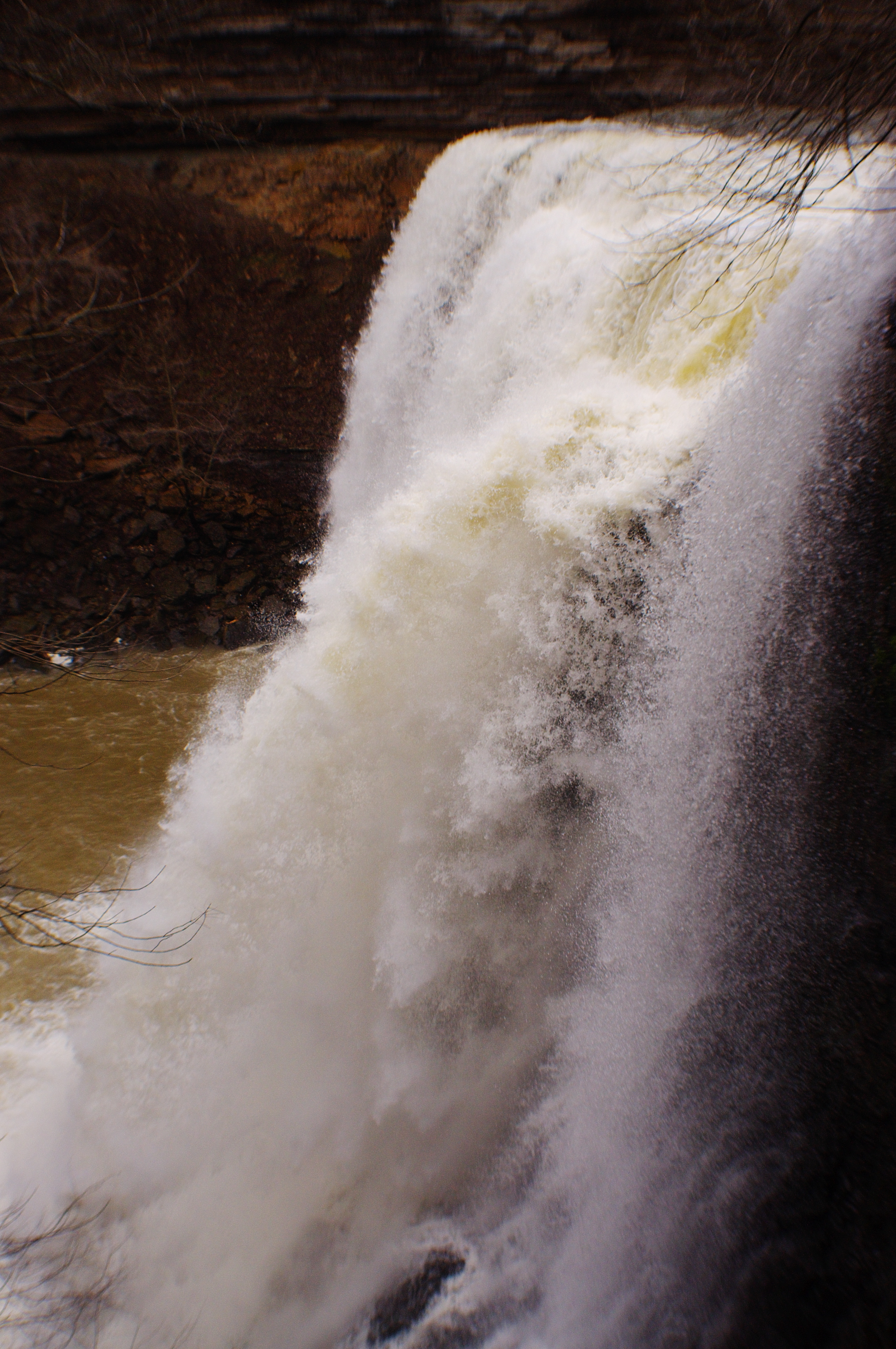 Burgess Falls, along the Falling Water River in Putnam County, Tennessee. This view is from the metal walkway leading down the south side of the falls.